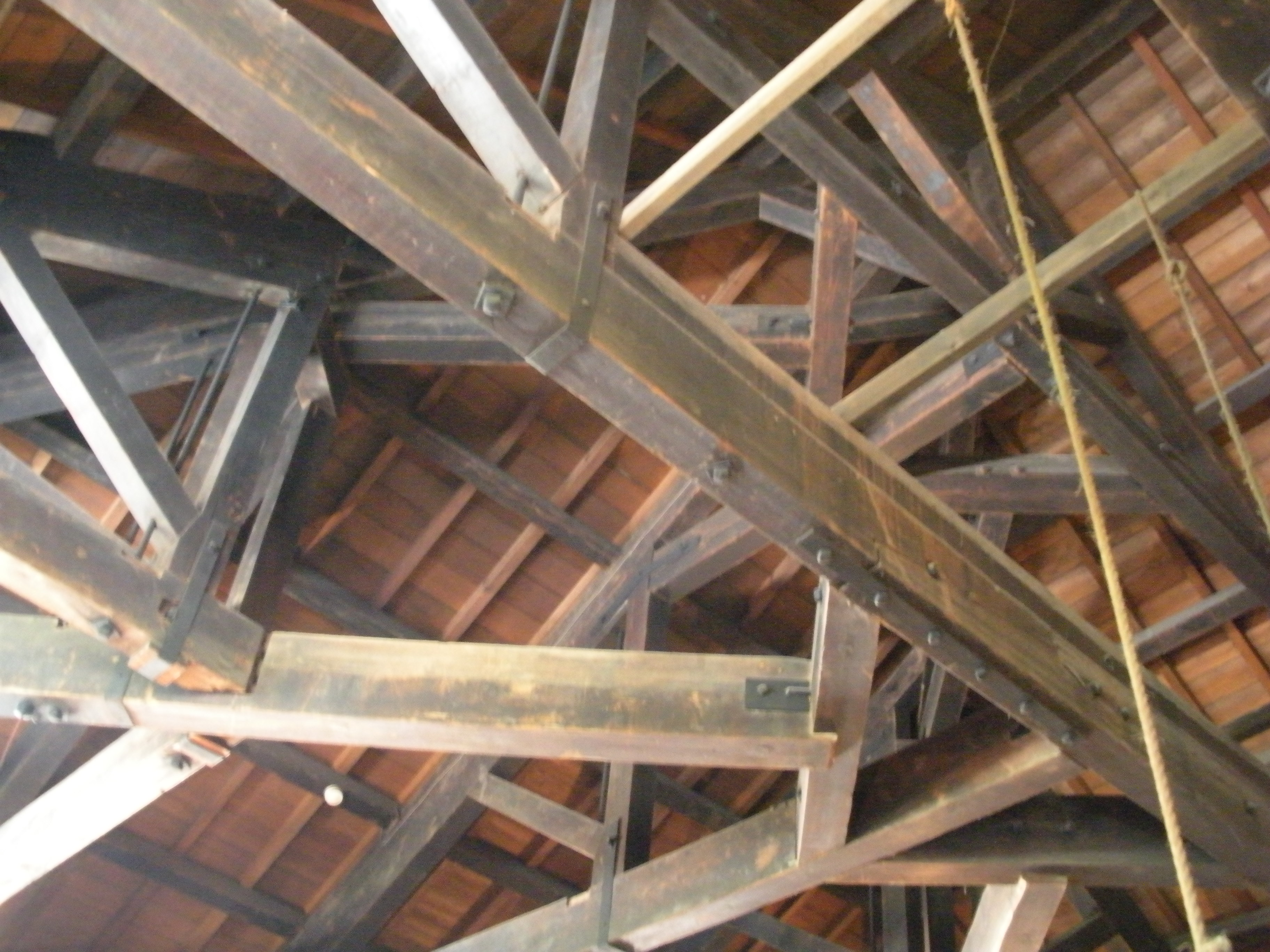 Japanese Pacific herring Fishermans house "Nishin-Goten" Beams Historical Village of Hokkaid. Atsubetsuch-konopporo, Atsubetsu-ku, Sapporo, Japan.